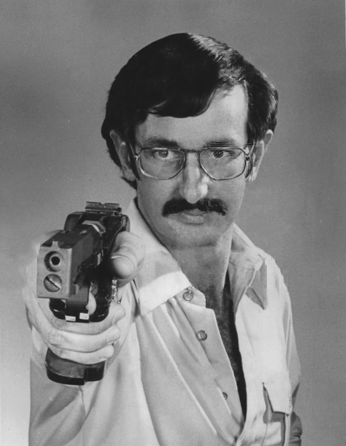 1976 Press Photo Terry M. Anderson, LA Army National Guard 2nd Lt. In Olympics